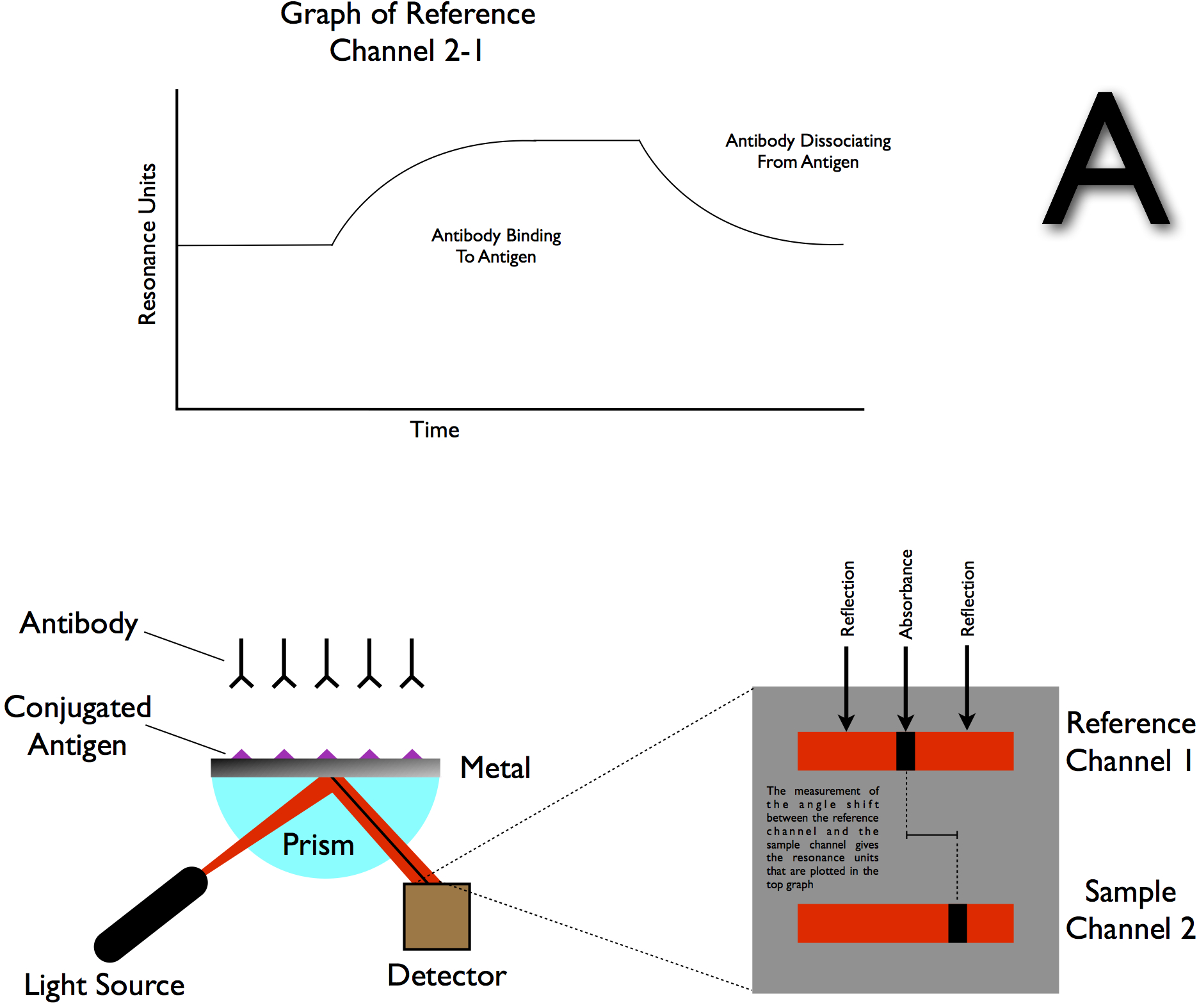 Diagram summarizes the data displayed by a Surface Plasmon Resonance (SPR) machine using a single ligand.